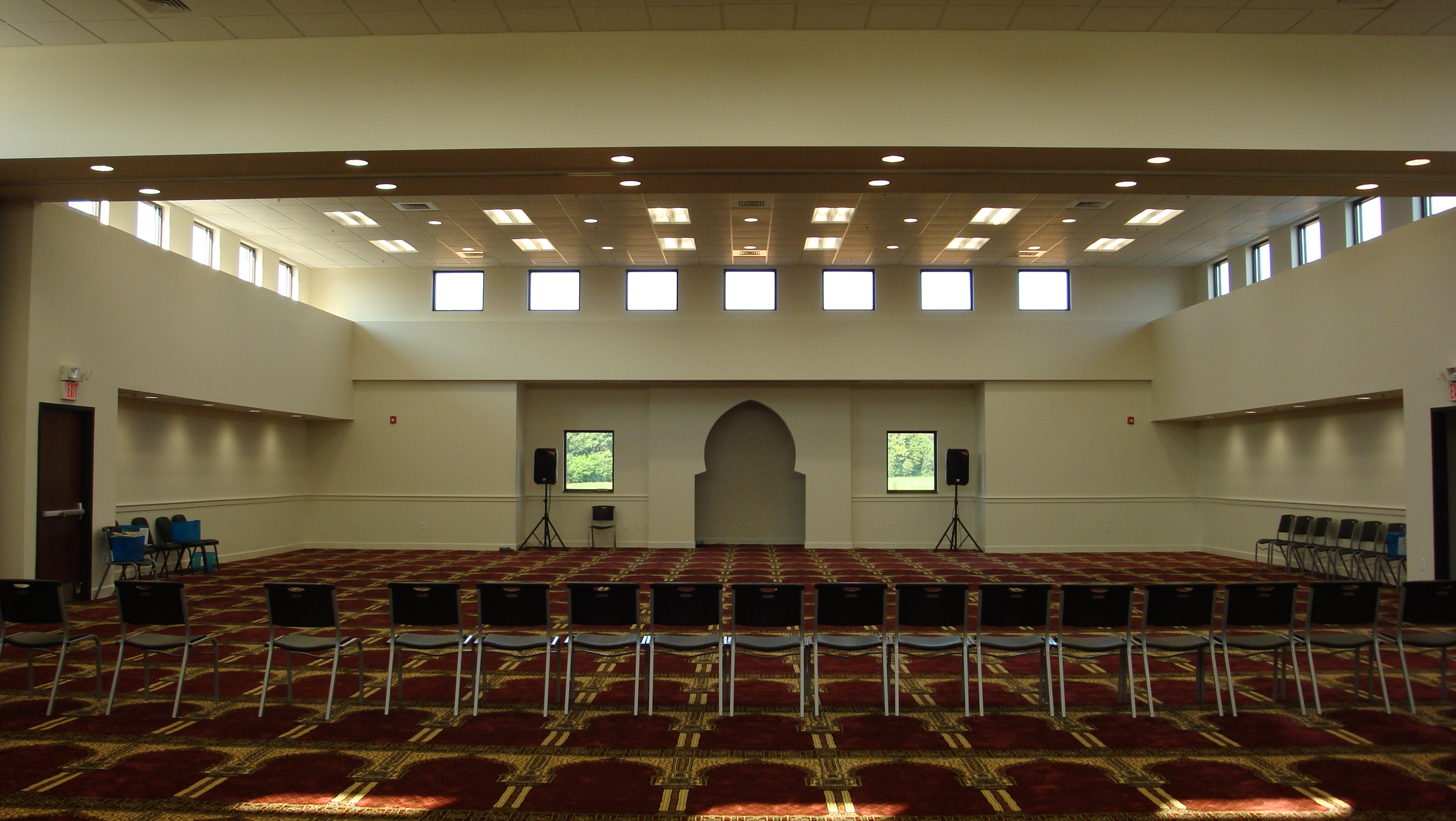 Interior of the Islamic Center of Murfreesboro, Tennessee